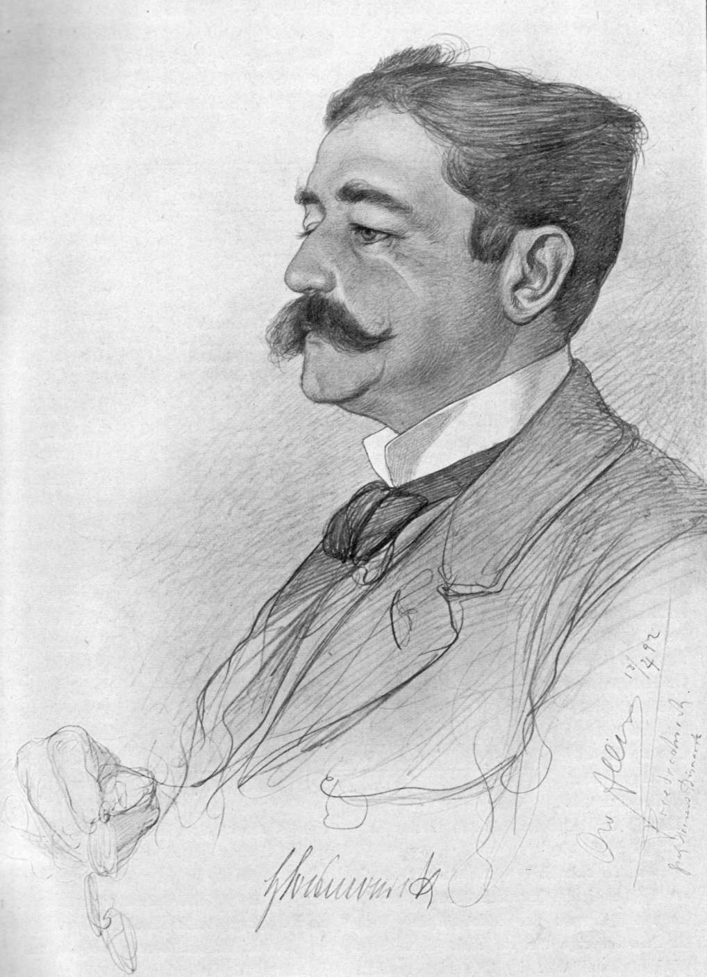 Portrait of Herbert von Bismarck, done 1892 by C.W.Allers.